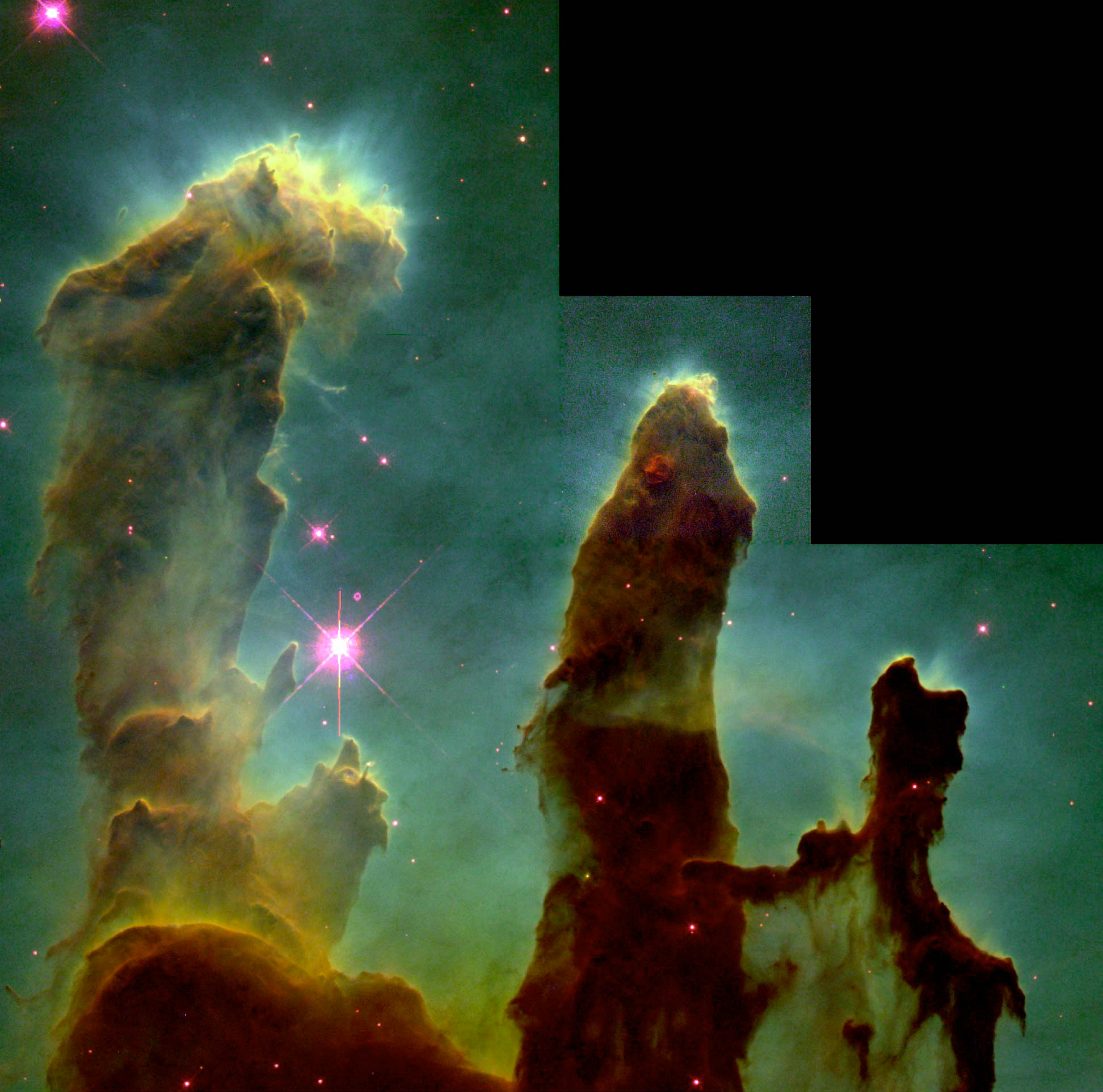 These eerie, dark pillar-like structures are columns of cool interstellar hydrogen gas and dust that are also incubators for new stars. The pillars protrude from the interior wall of a dark molecular cloud like stalagmites from the floor of a cavern. They are part of the "Eagle Nebula" (also called M16 -- the 16th object in Charles Messier's 18th century catalog of "fuzzy" objects that aren't comets), a nearby star-forming region 7,000 light-years away in the constellation Serpens. Ultraviolet light is responsible for illuminating the convoluted surfaces of the columns and the ghostly streamers of gas boiling away from their surfaces, producing the dramatic visual effects that highlight the three dimensional nature of the clouds. The tallest pillar (left) is about a light-year long from base to tip. As the pillars themselves are slowly eroded away by the ultraviolet light, small globules of even denser gas buried within the pillars are uncovered. These globules have been dubbed "EGGs." EGGs is an acronym for "Evaporating Gaseous Globules," but it is also a word that describes what these objects are. Forming inside at least some of the EGGs are embryonic stars, stars that abruptly stop growing when the EGGs are uncovered and they are separated from the larger reservoir of gas from which they were drawing mass. Eventually, the stars themselves emerge from the EGGs as the EGGs themselves succumb to photoevaporation. The picture was taken on April 1, 1995 with the Hubble Space Telescope Wide Field and Planetary Camera 2. The color image is constructed from three separate images taken in the light of emission from different types of atoms. Red shows emission from singly-ionized sulfur atoms. Green shows emission from hydrogen. Blue shows light emitted by doubly- ionized oxygen atoms.